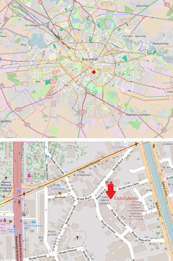 Club Colectiv location in Bucharest This map may be incomplete, and may contain errors. Don't rely solely on it for navigation.